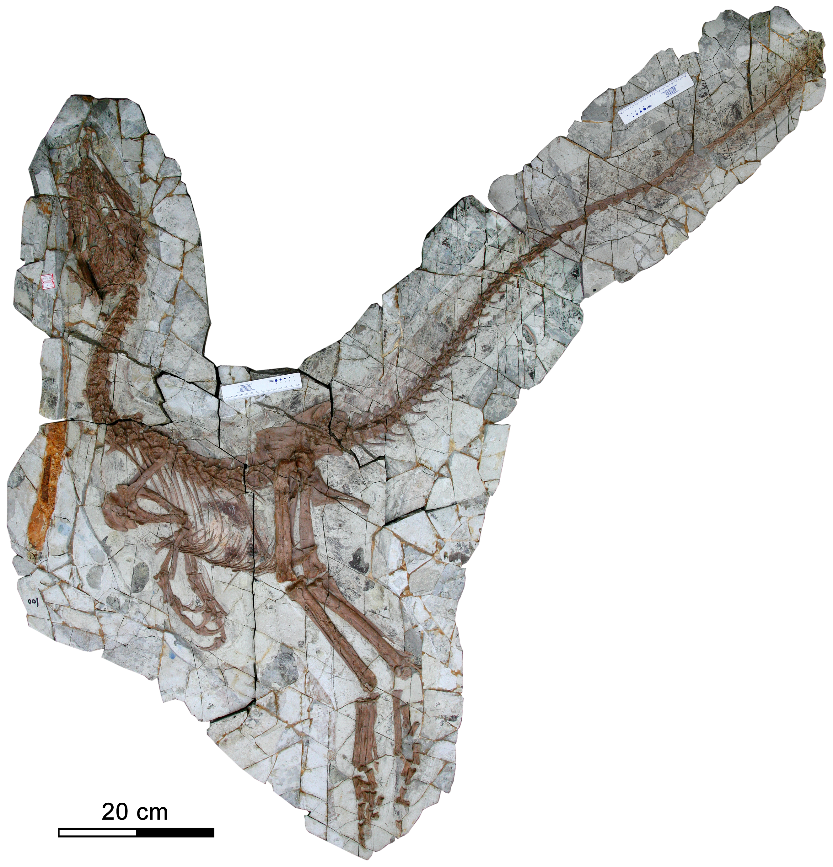 Holotype of Sinocalliopteryx gigas (JMP-V-05-8-01).